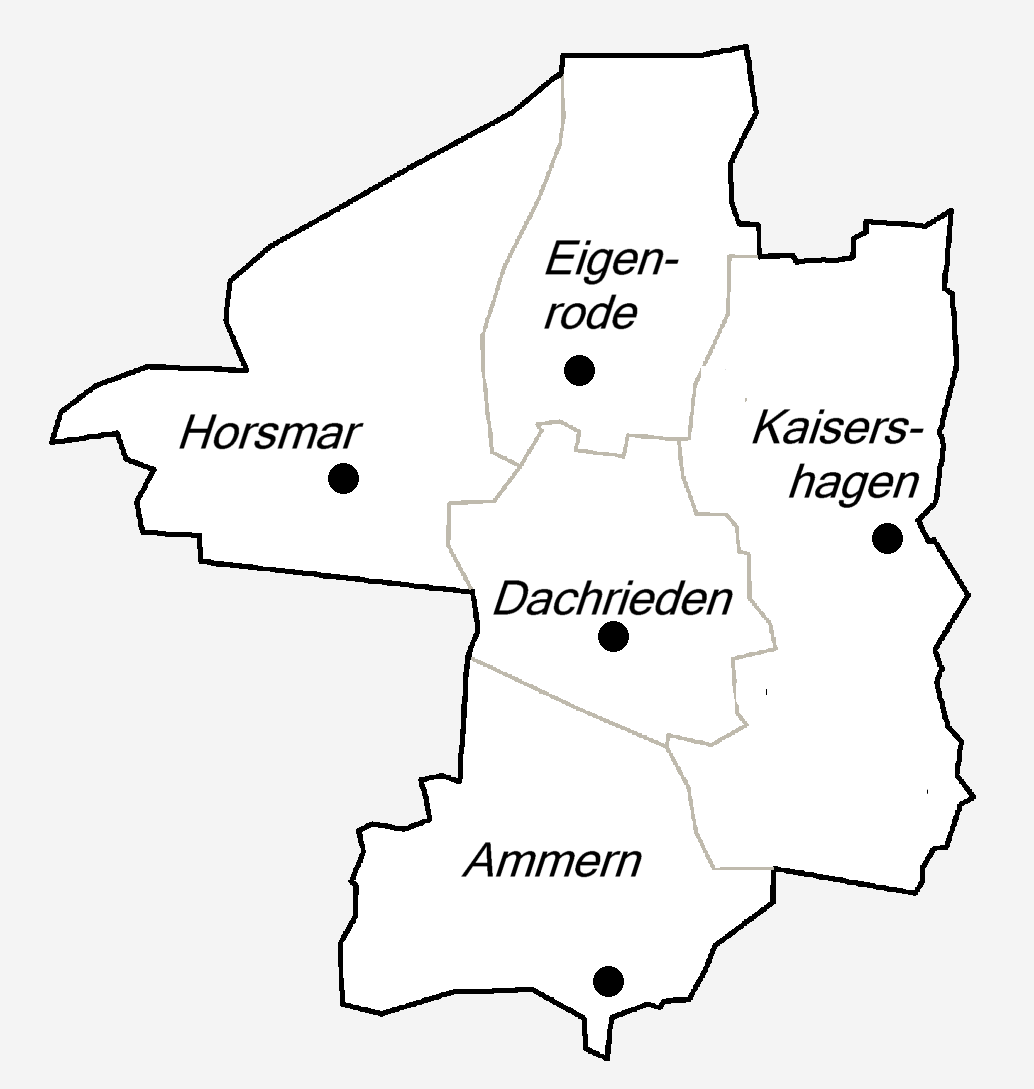 District-Map of Unstruttal, general overview.